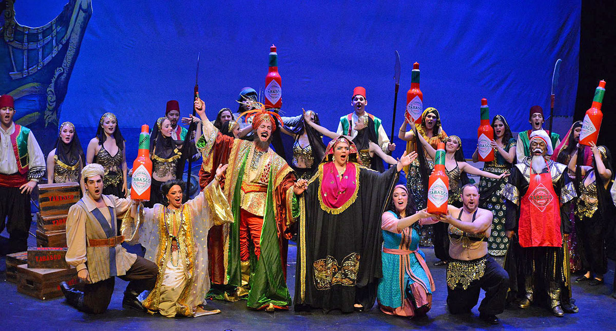 A photo of the entire cast of the January 2018 revival of the Tabasco opera, first performed in 1894.